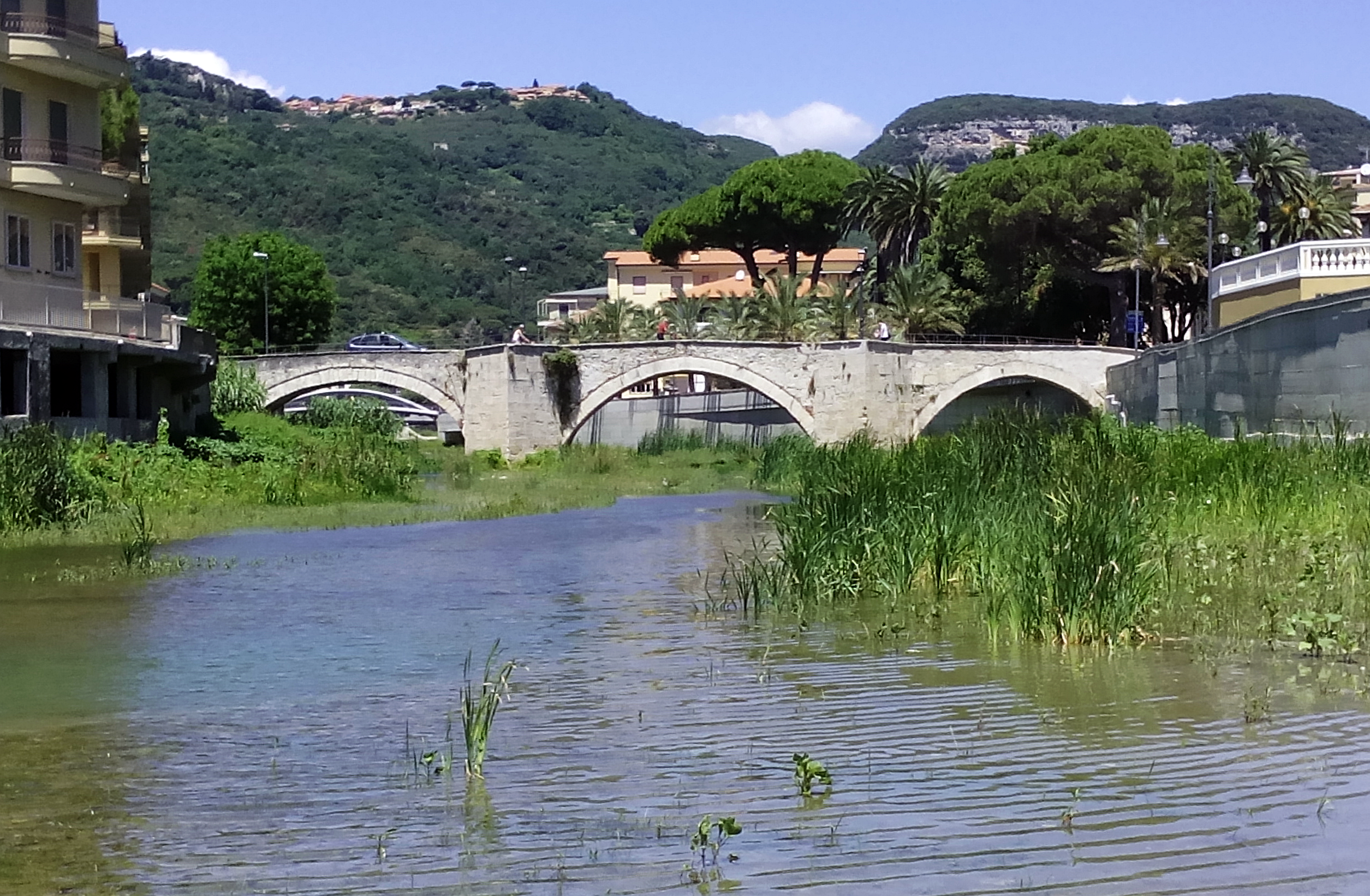 Final Pia (SV): ancient bridge on the Sciusa